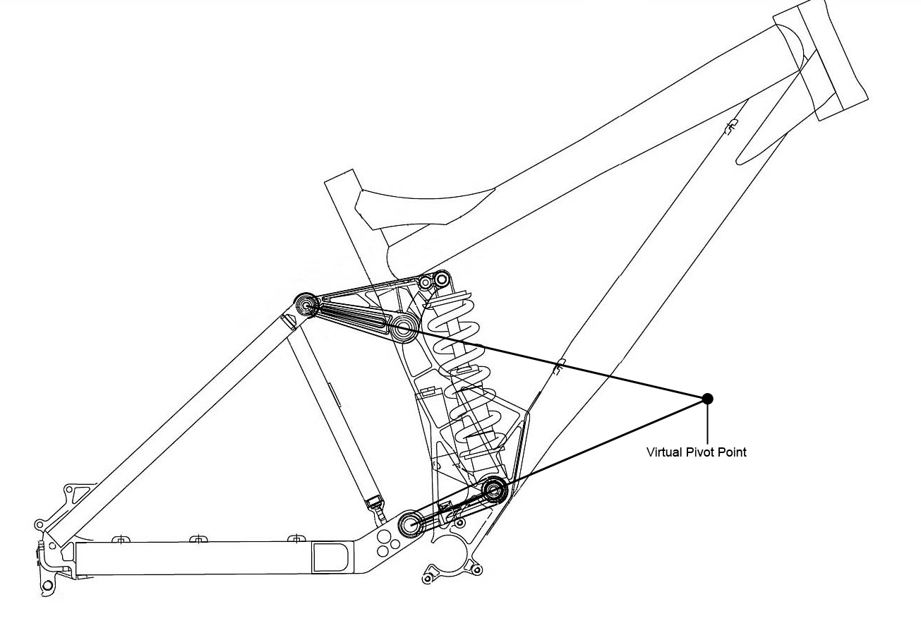 Ironhorse Sunday virtual pivot point